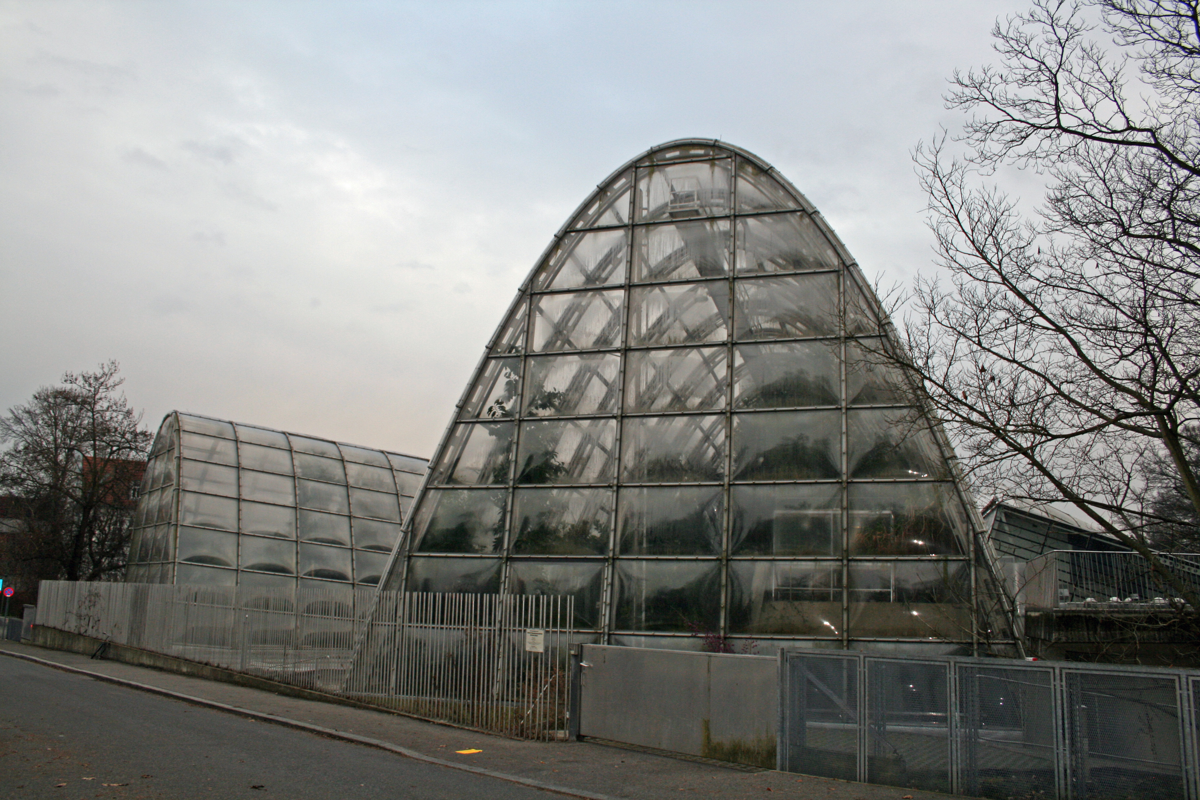 Botanical garden in Graz, Austria, Europe